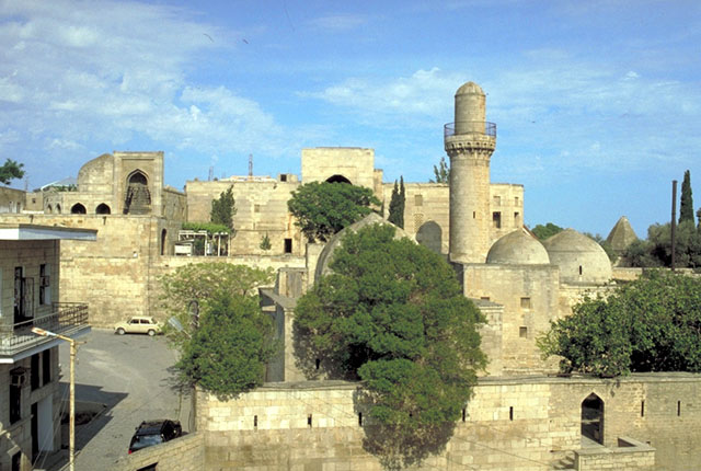 my photo taken in 2003